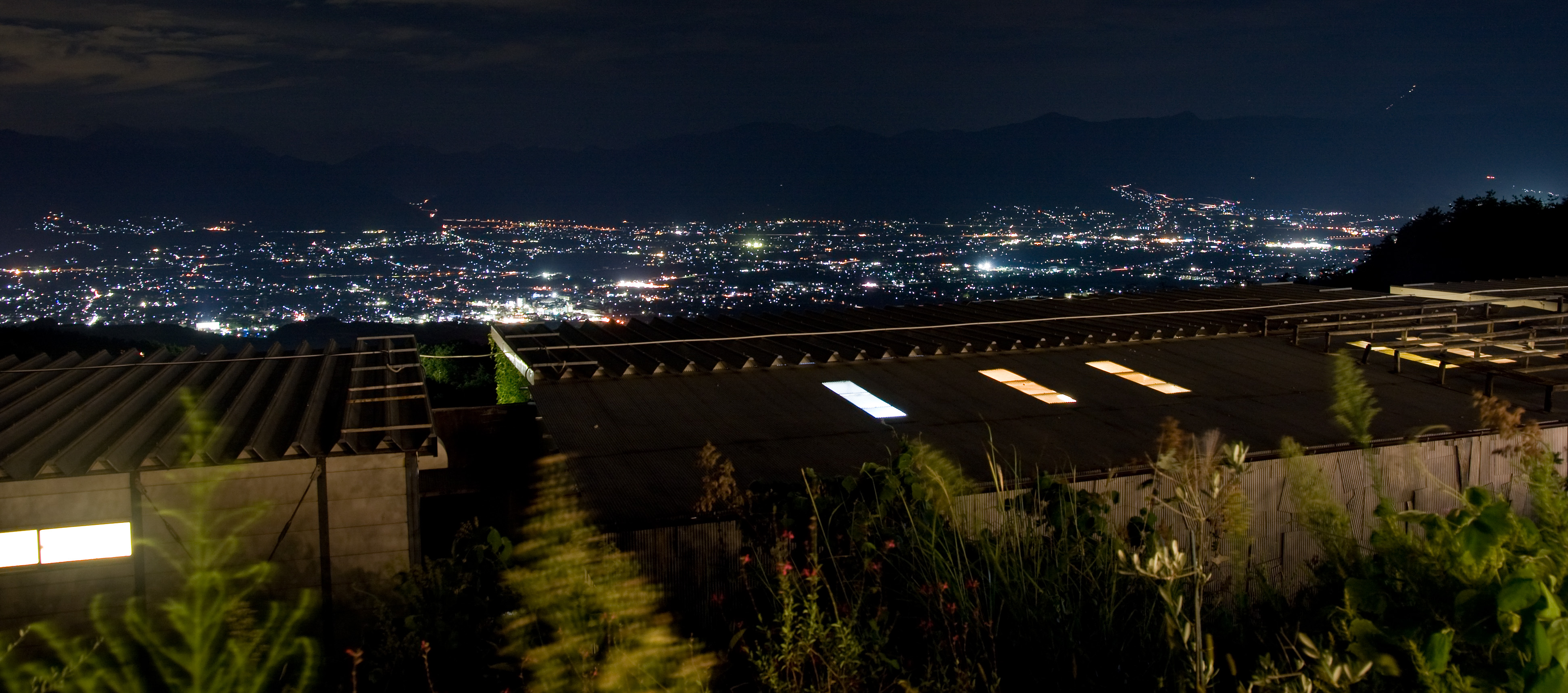 Kofu Basin seen from Hottarakashi Onsen in Yamanashi Prefecture, Honshu, Japan.